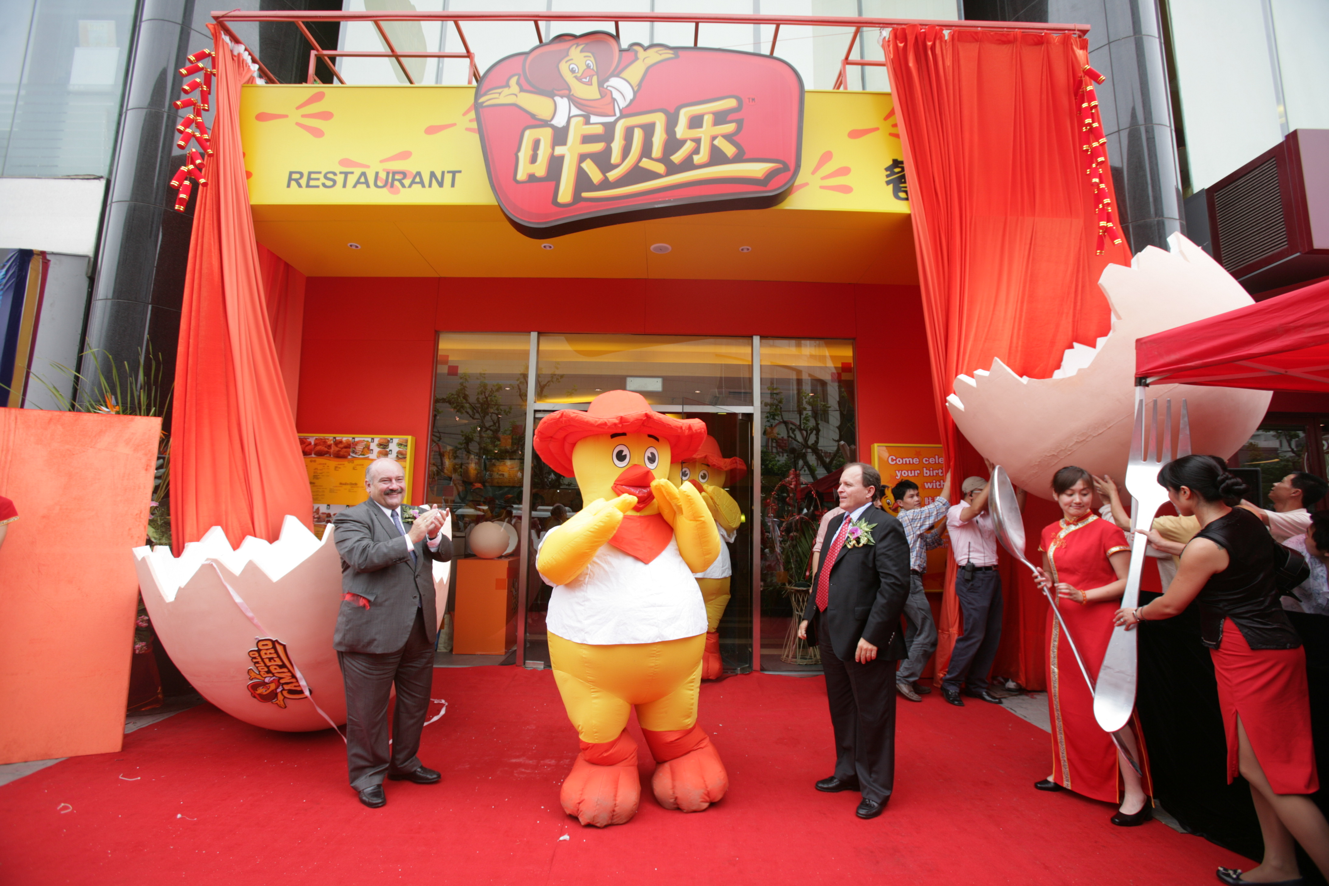 Grand opening of the Pollo Campero Shanghai, the start of the chain's presence in China.